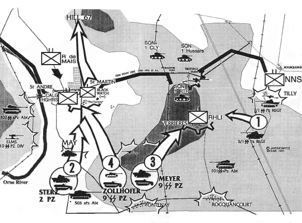 Diagram of German counterattacks during Operation Spring, July 25-26, 1944.